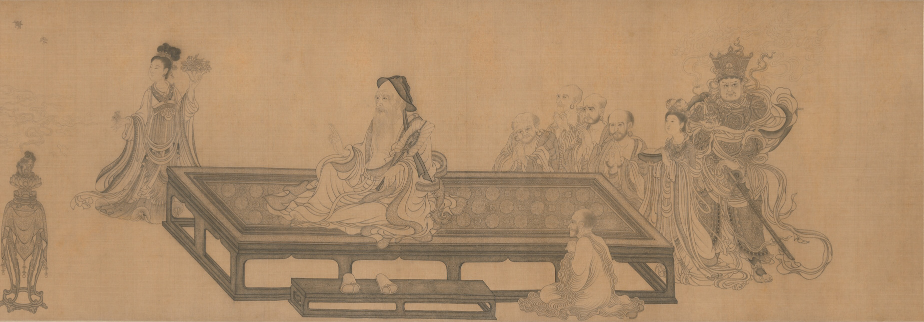 "Vimalakirti and the Doctrine of Nonduality", handscroll, ink on silk.